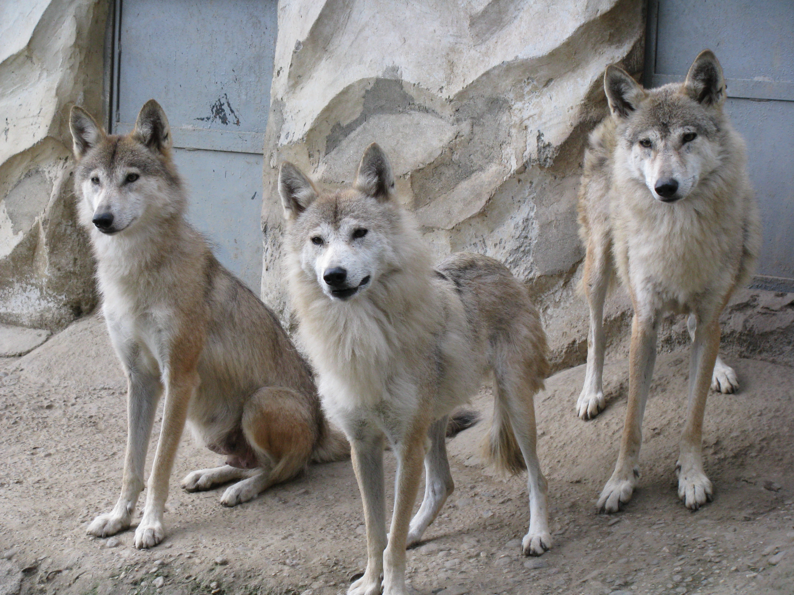 The Tibetan wolves at the Padmaja Naidu Himalayan Zoological Park, Darjeeling were found by a 2007 study to fall within the Himalayan wolf clade.